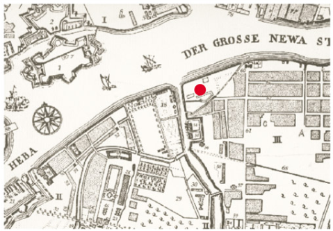 European University at St.Petersburg